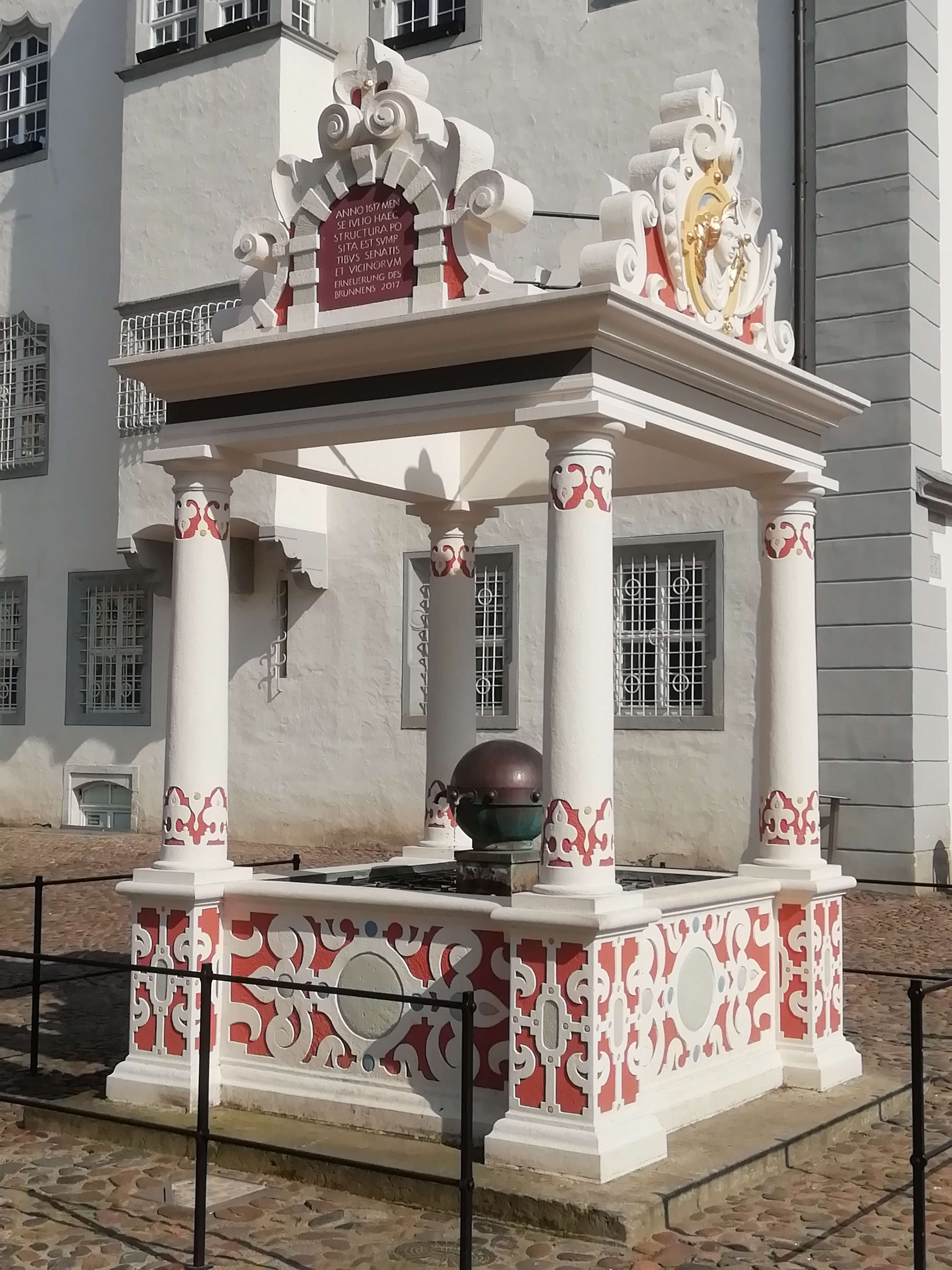 Lutherstadt Wittenberg - Market Square Fountain